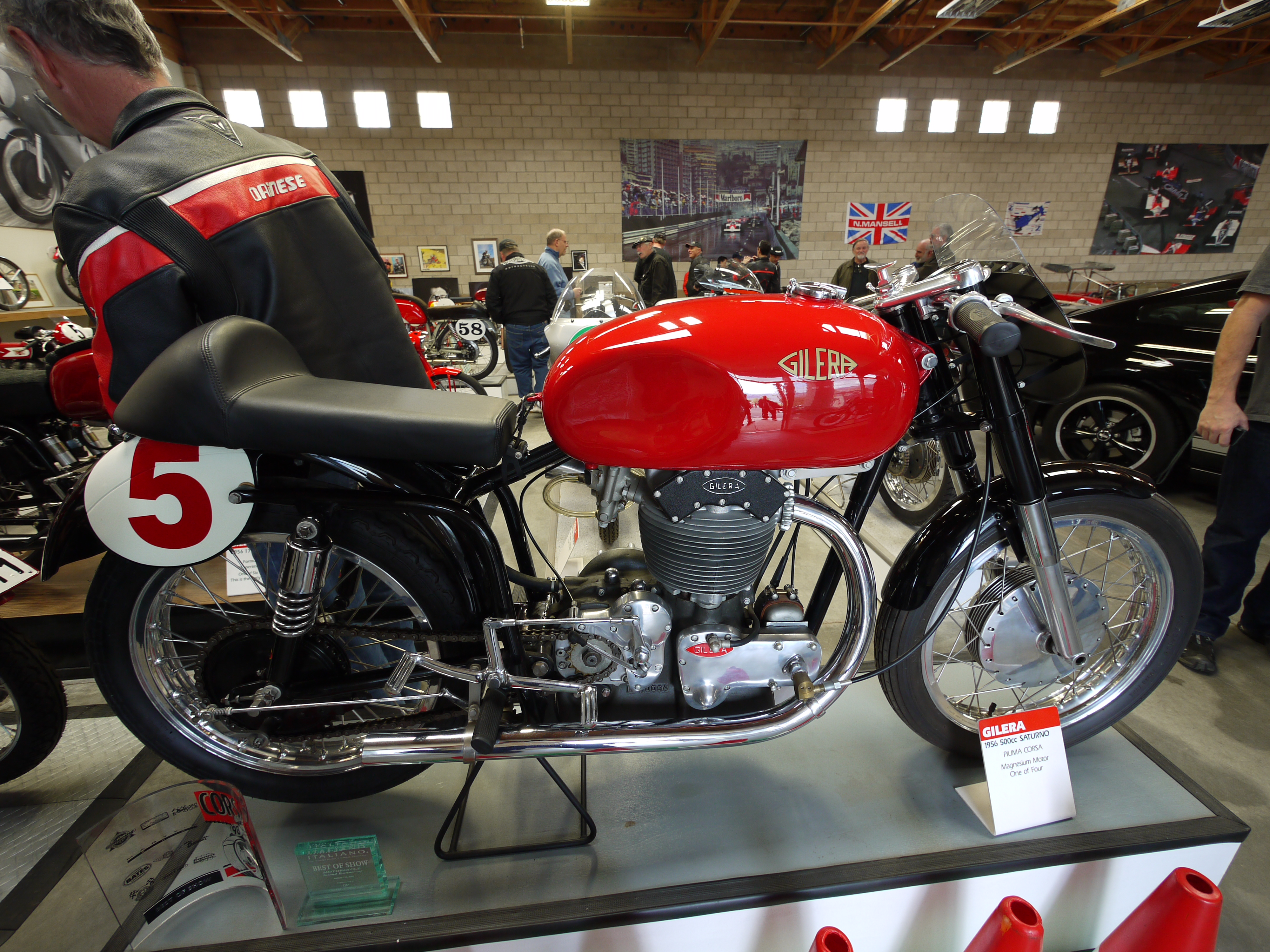 Gilera 500 Saturno Piuma Corsa, 1956; is one of the 4 specimens with magnesium alloy engine.